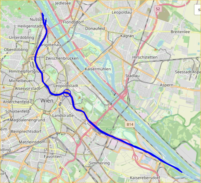 The path of the Donaukanal / Danube Channel river in Wien /Vienna